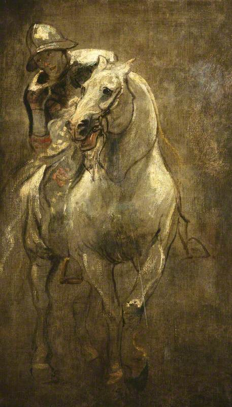 van Dyck, Anthony; A Soldier on Horseback; Christ Church, University of Oxford